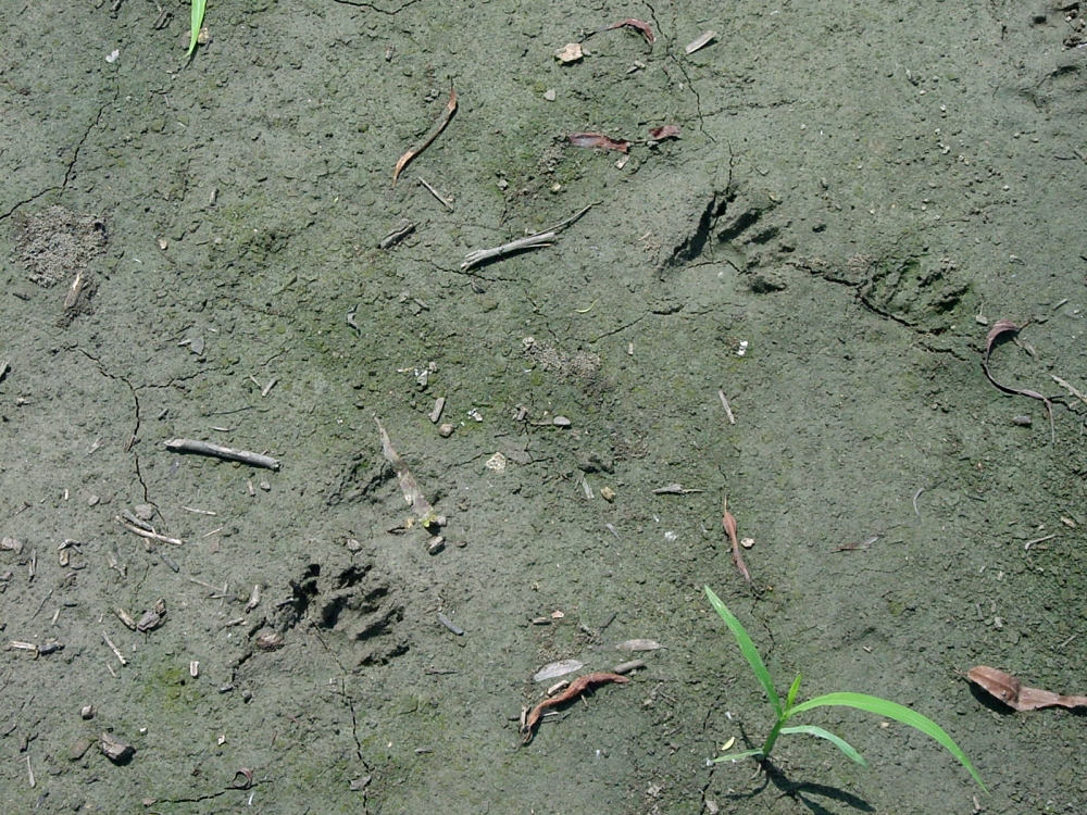 Procyon lotor, Mississippi near Cairo, South Illinois, USA